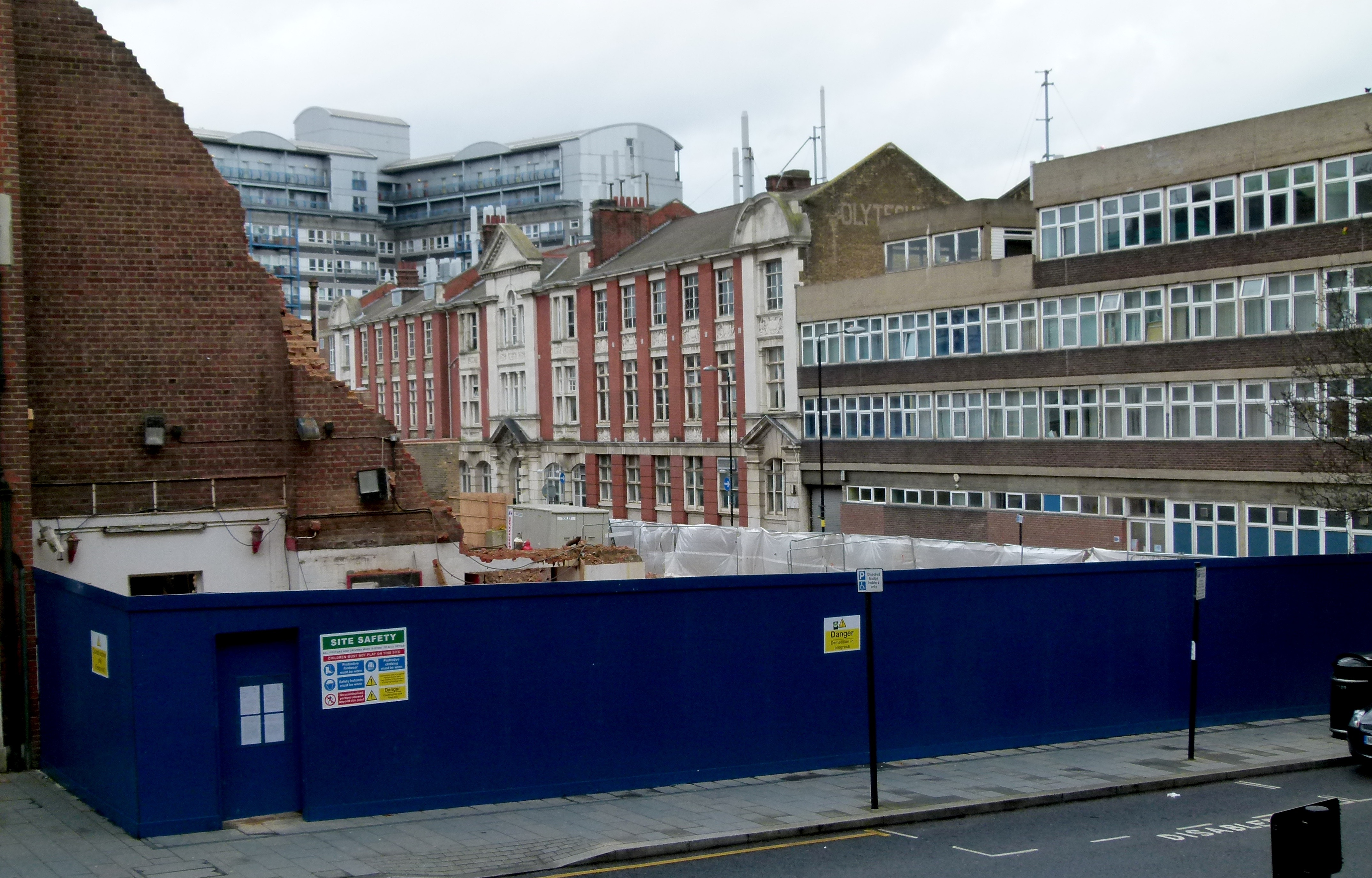 View from Wellington Street of the demolition site of the Grand Theatre in Woolwich, south east London.